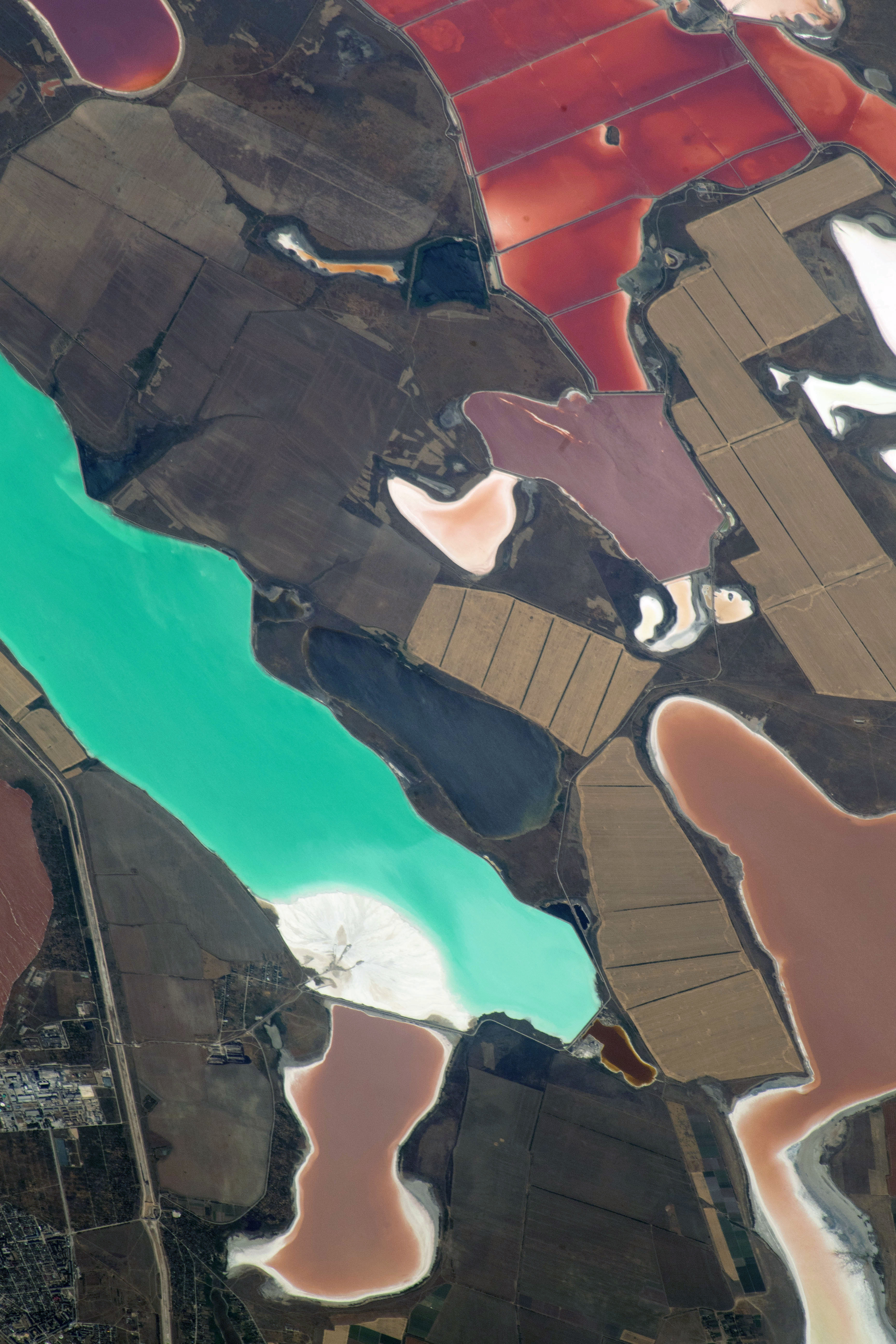 An Expedition 56 crew member aboard the International Space Station pictured lagoons in the Crimea between the Sea of Azov and the Black Sea which appear different colors due to shallow waters and their varied chemical composition.